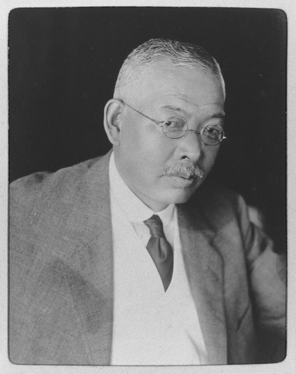 Portrait of Koyama Shoju (小山松寿, 1876 – 1959)